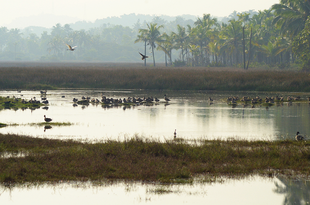 Photographed at Munderi wetlands, Kannur District. on 2012-01-27 by Nishandh Mayiladan[